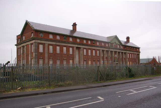 The Shorts Building, Cardington airfield Built in 1917 (on the parapet below the front gable is inscribed MCMXVII), this asymmetric building served as a hotel for airship passengers.